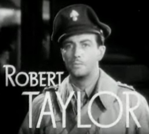 Cropped screenshot of Robert Taylor from the trailer for the film Waterloo Bridge